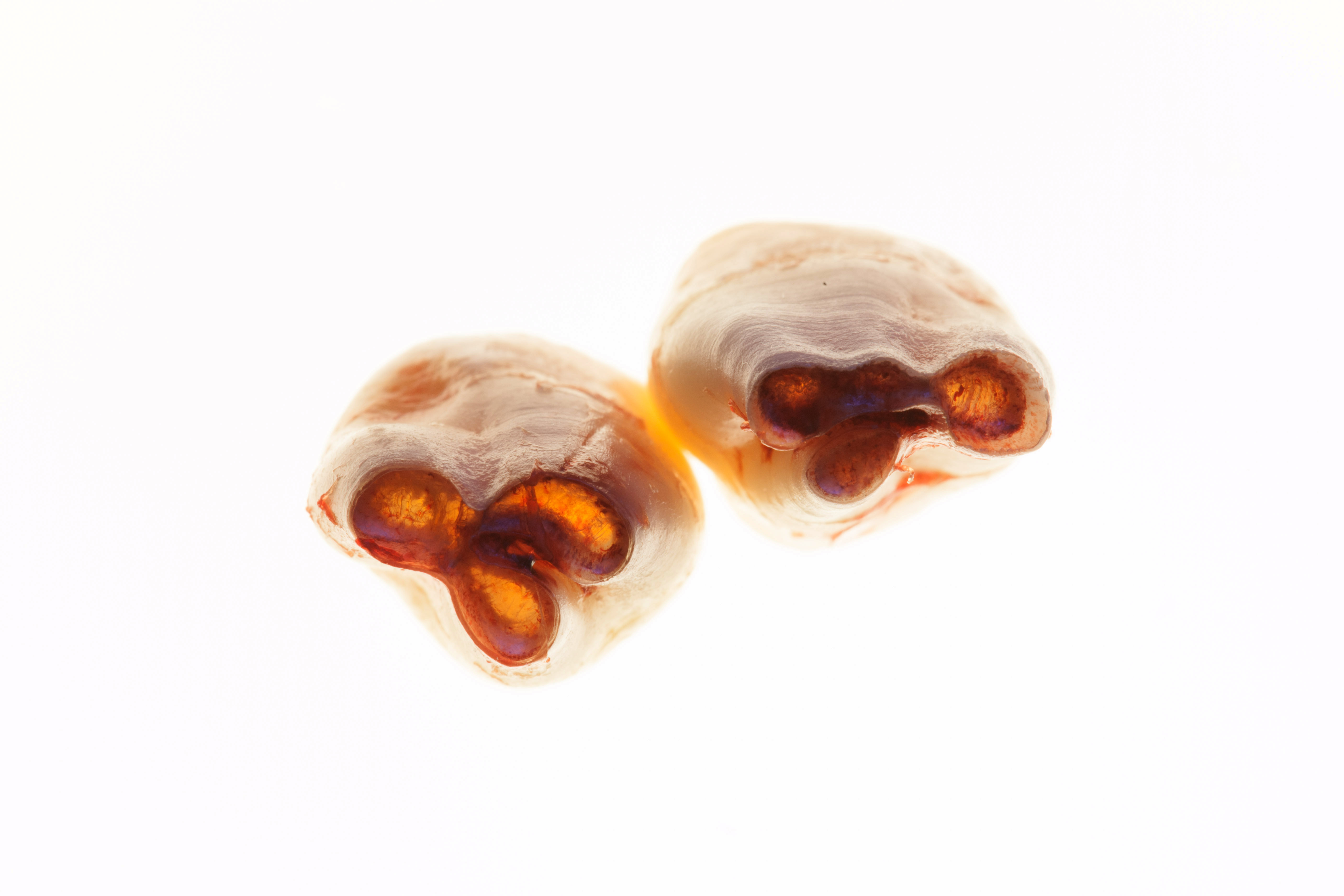 The roots (pulps) of two extracted, not fully developed wisdom teeth, photographed from the buttom.